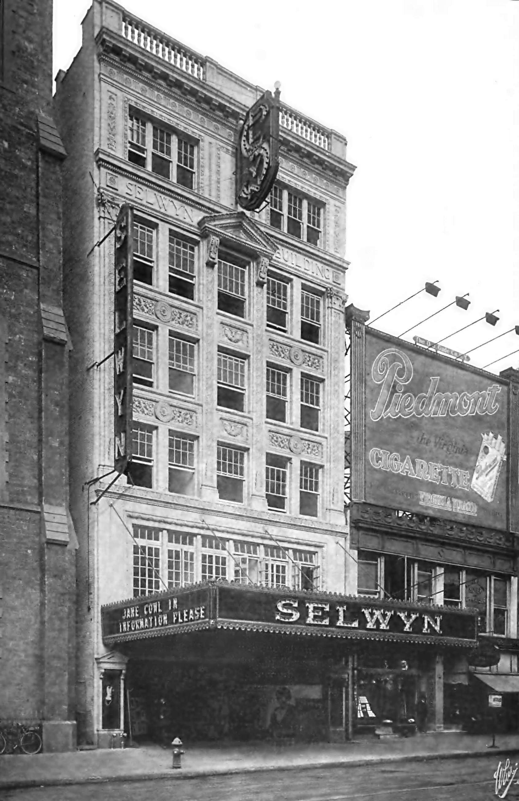 Caption reads: "Selwyn Theatre, 229 West 42d Street, New York City" Credit reads (in part): "George Keister, Architect" White Studio signature in lower right The marquee side reads: "Jane Cowl in Information Please" The entrance lobby, in the office building shown, led to the theater, which is on 43rd Street. The office building was replaced by the New 42nd Street Building in 2001, and the renovated theater is today known as the American Airlines Theatre.